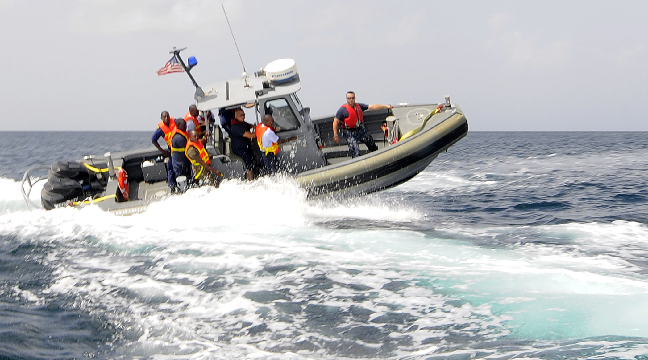 BRIDGETOWN, Barbados (Aug. 18, 2010) Chief Master-at-Arms J. Del Omo, right, rides in a rigid-hull inflatable boat with sailors from the U.S. Navy and the Royal Barbados Defense Force during a Naval Criminal Investigative Service subject matter expert exchange for Southern Partnership Station 2010. Southern Partnership Station is an annual deployment of U.S. military training teams to the U.S. Southern Command area of responsibility. (U.S. Navy photo by Mass Communication Specialist 1st Class Kim Williams/Released)